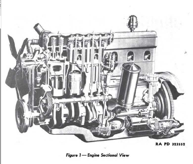 IHC Red 450 engine cutaway view